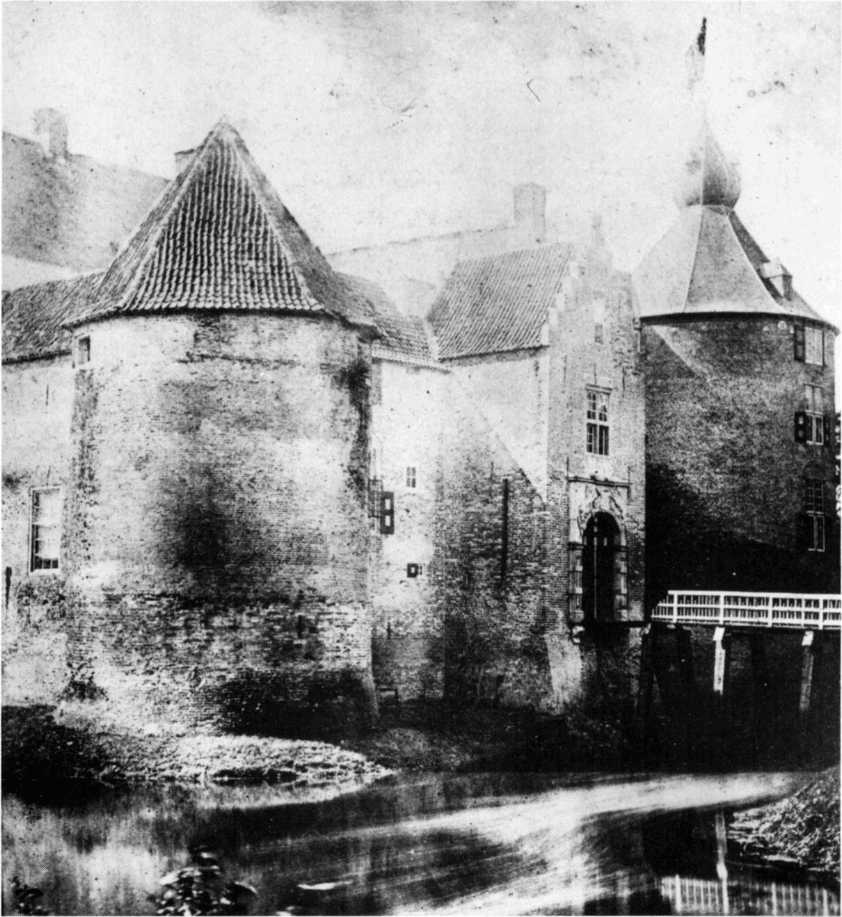 Arthur baron de Woëlmont. Ammersoyen Castle seen from the north-east. c 1868. Photo. From John Box (1870) Chronicles of the Castle of Amelroy, London: s.n.